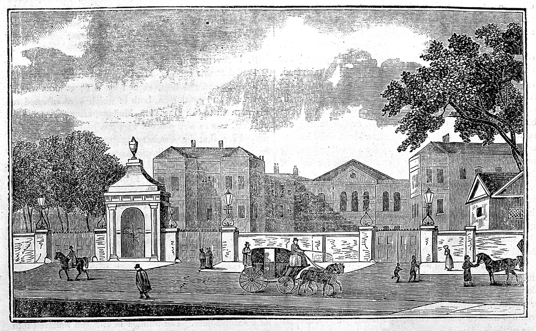 Foundling Hospital, London: exterior view. Rare Books Keywords: Institutions; Philanthropy; Hospitals; Thomas Coram